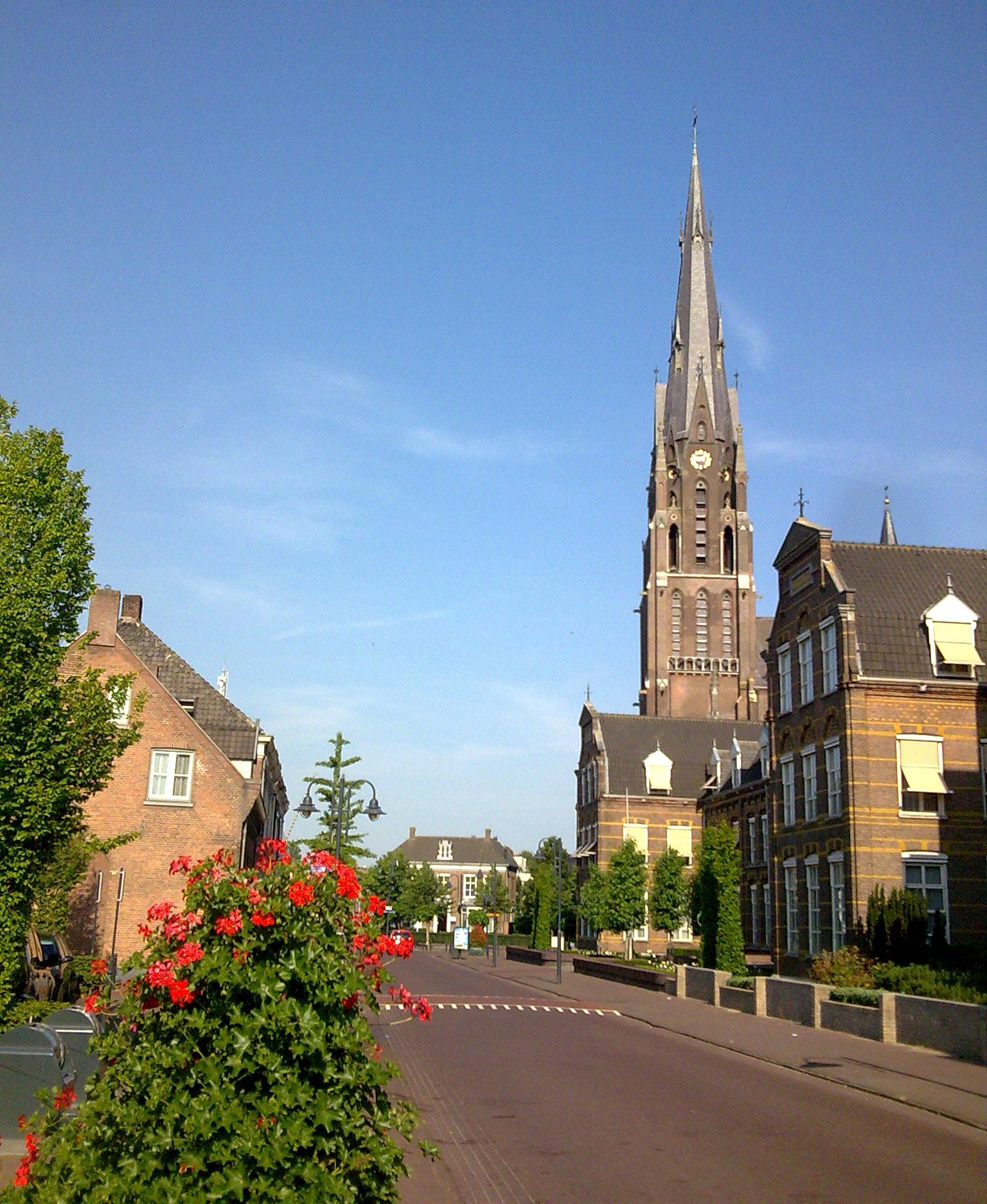 Veghel Monastry Church